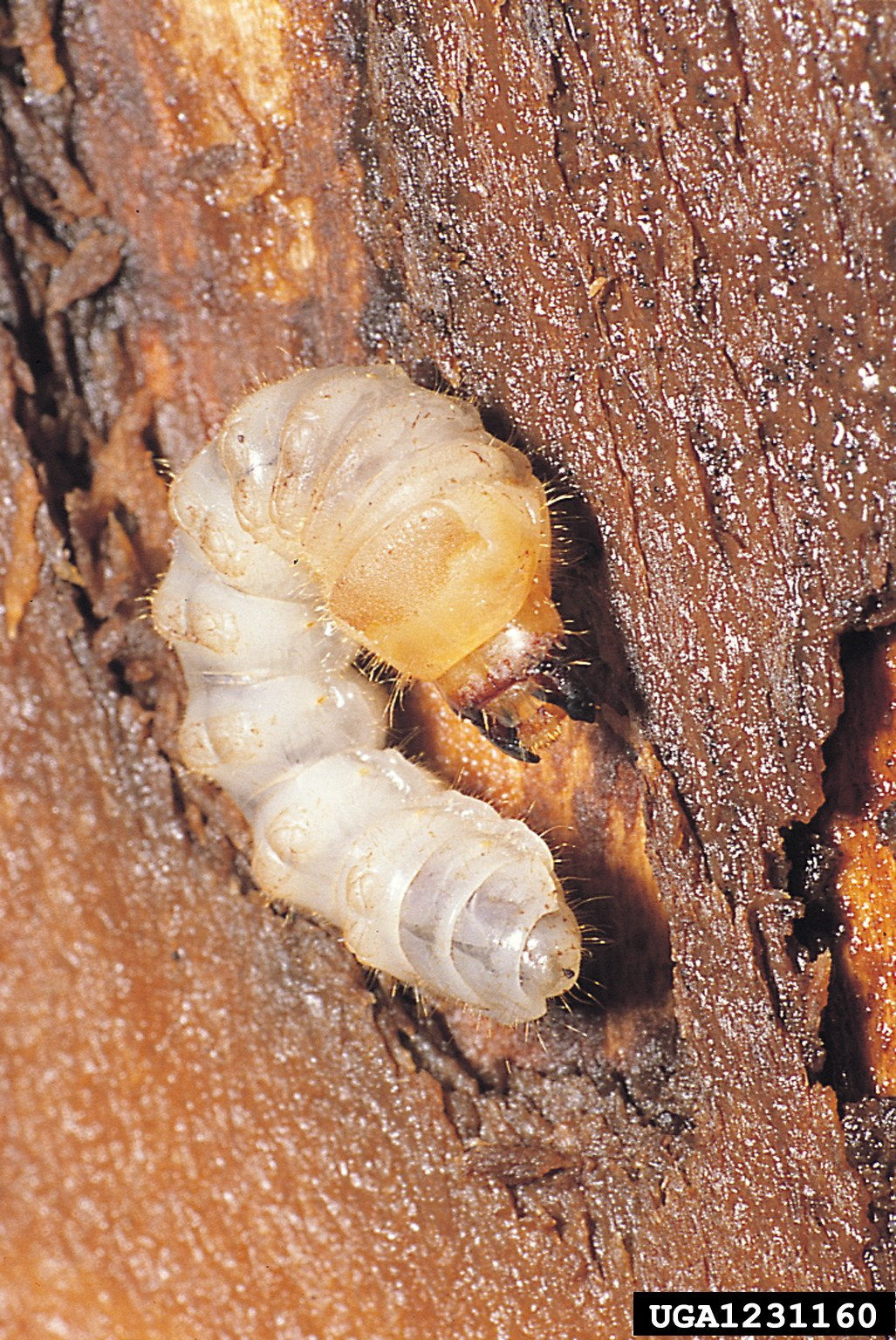 Saperda perforata larva